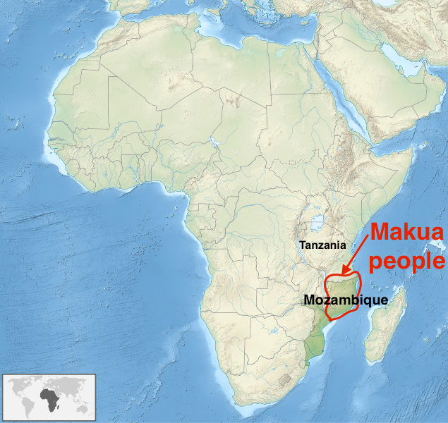 Geographic distribution of Makua people in Mozambique and Tanzania (approx). A small number of Makua people are also found in other countries neighboring Mozambique. This is a derivative work on the following image available on wikimedia commons under creative commons: File:Mozambique in Africa (relief).svg